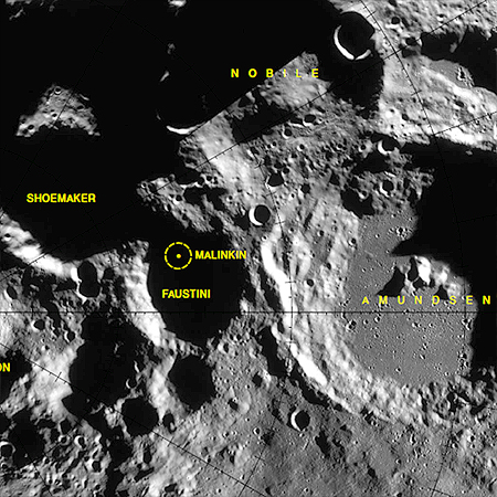 LROC WAC South Pole Mosaic view